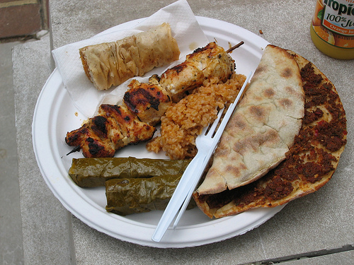 Plat arménien. Armenian cuisine at the 2006 Armenian Festival, Alexandria, Virginia, USA.